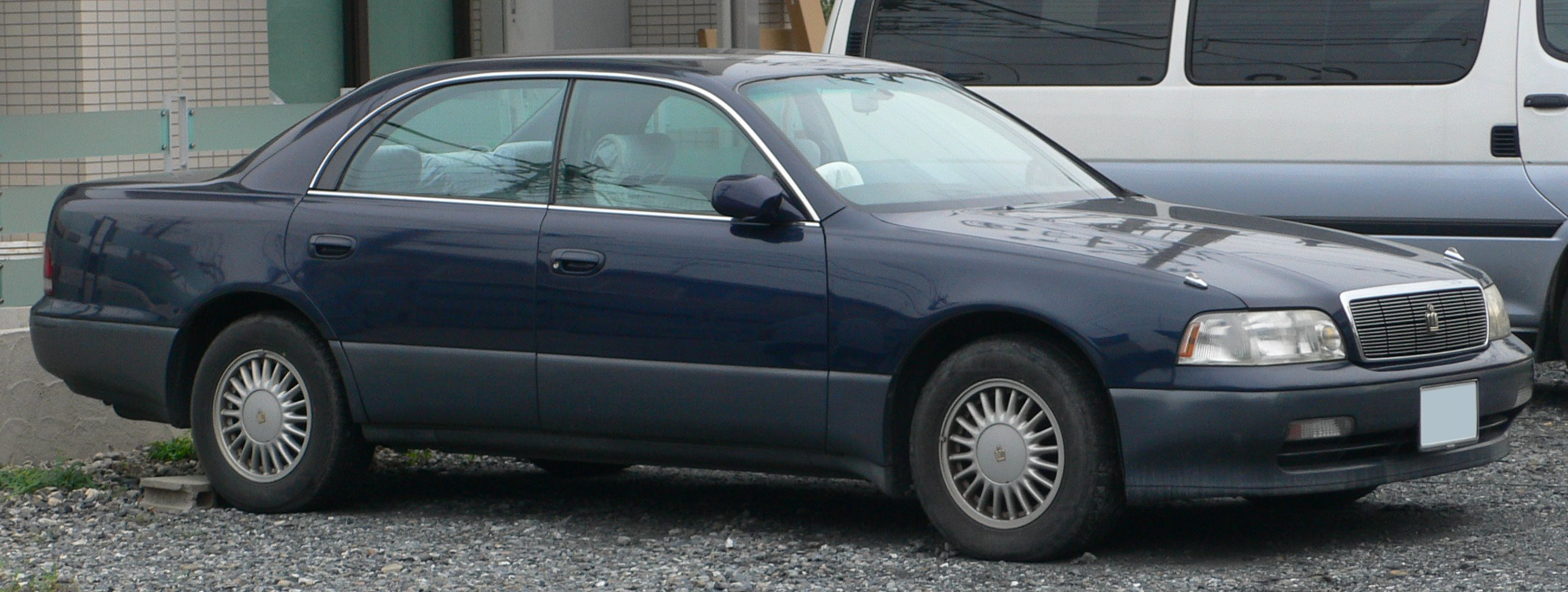 1st generation Toyota Crown Majesta (1991 - 1993)